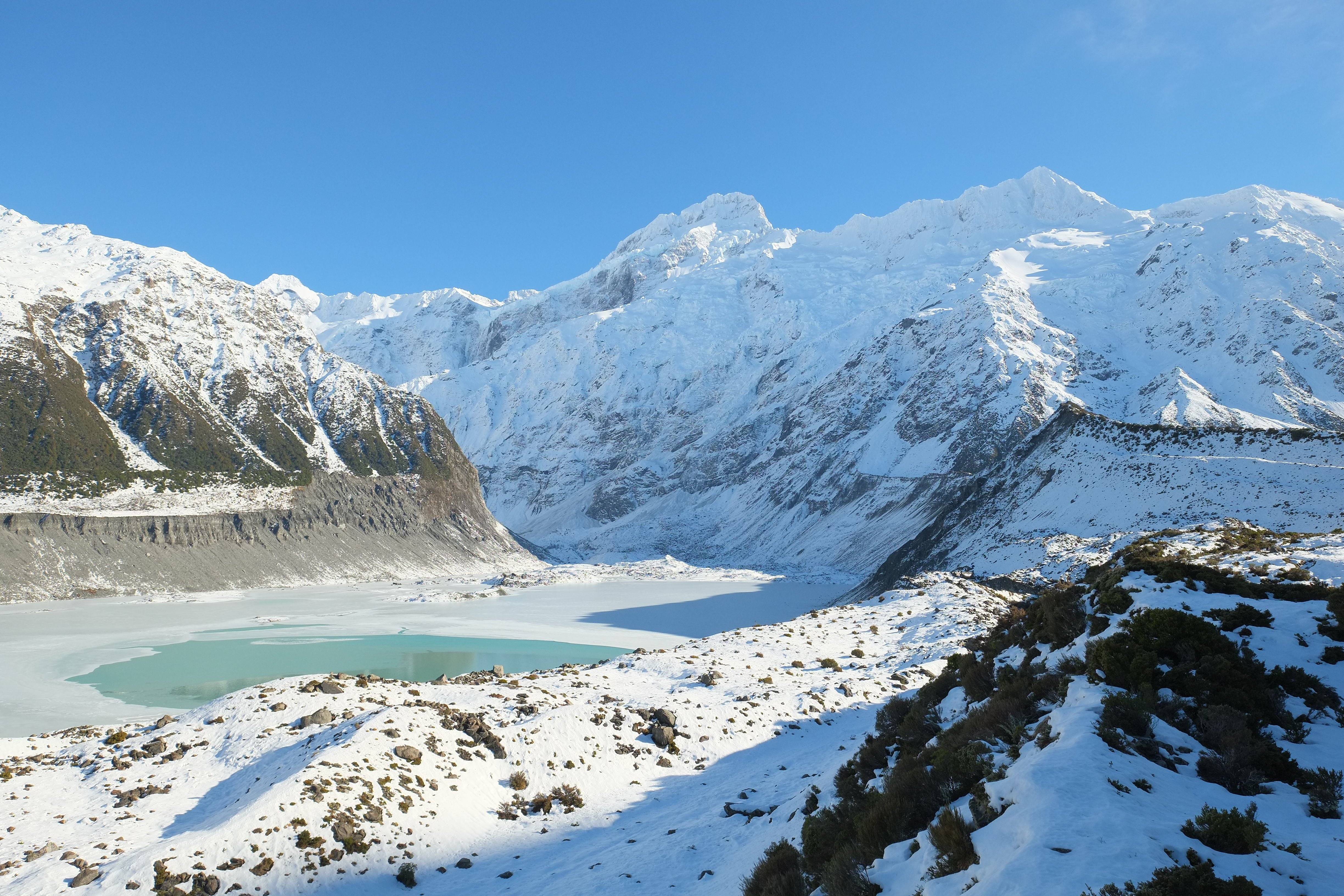 Frozen Mueller Glacier Lake and Mueller Glacier Lake in front of Mount Sefton in winter; lateral moraine in the foreground